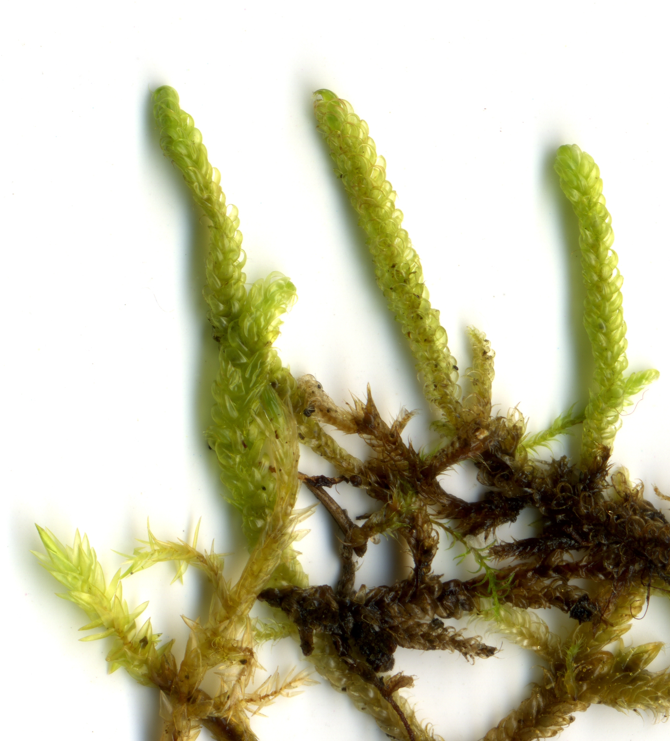 Flatbed Scan of moss plants